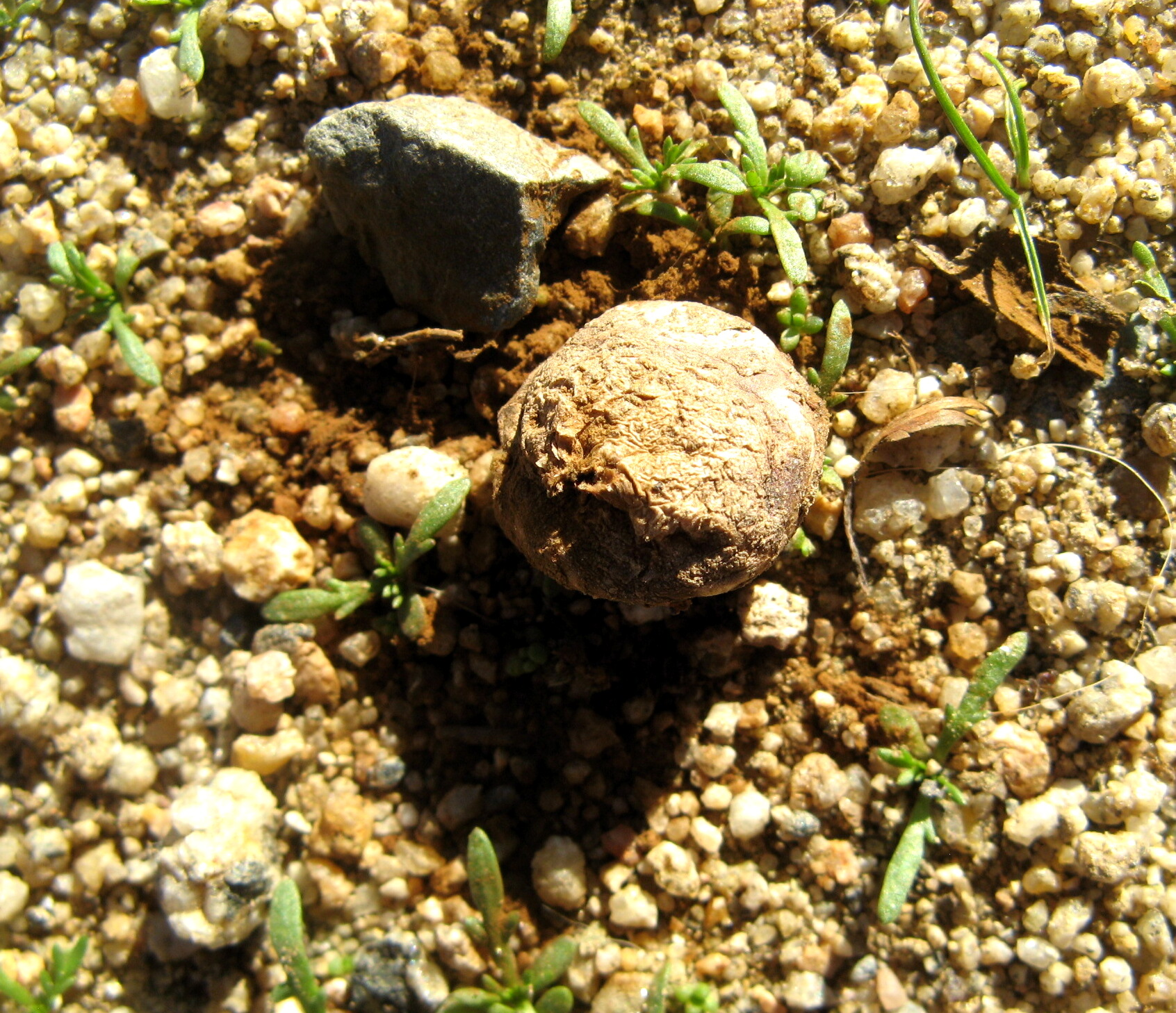 Disciseda candida By Alan Rockefeller 11/2/10 Vista, San Diego Co., California, USA